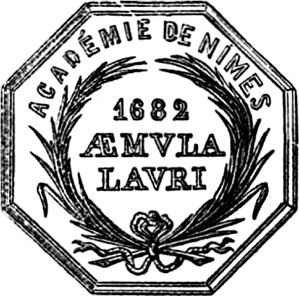 Seal of the Académie de Nîmes.